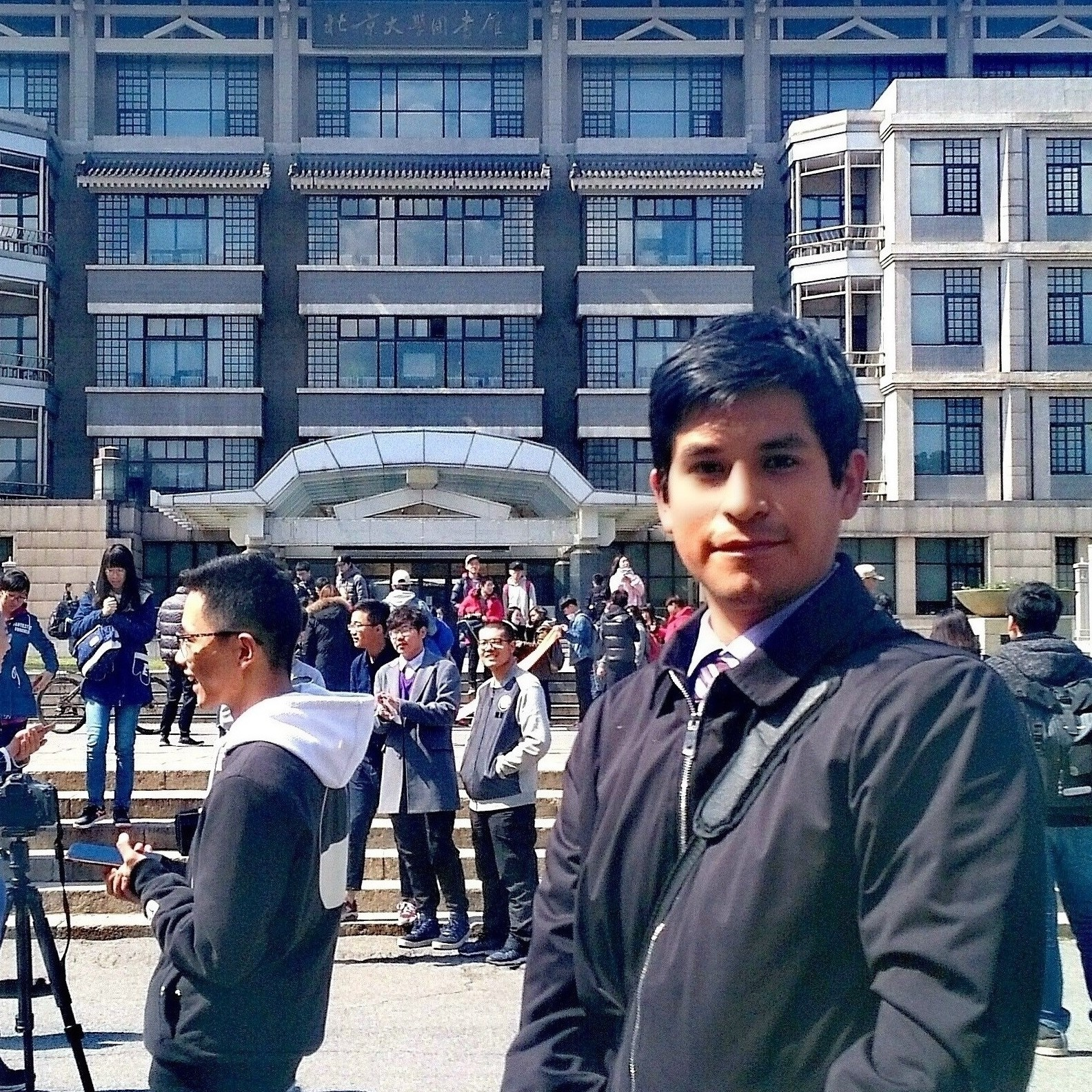 YCA PKU - Yenching Academy of Peking University: 2017 Yenching Global Symposium —at Peking University [March, 2017]